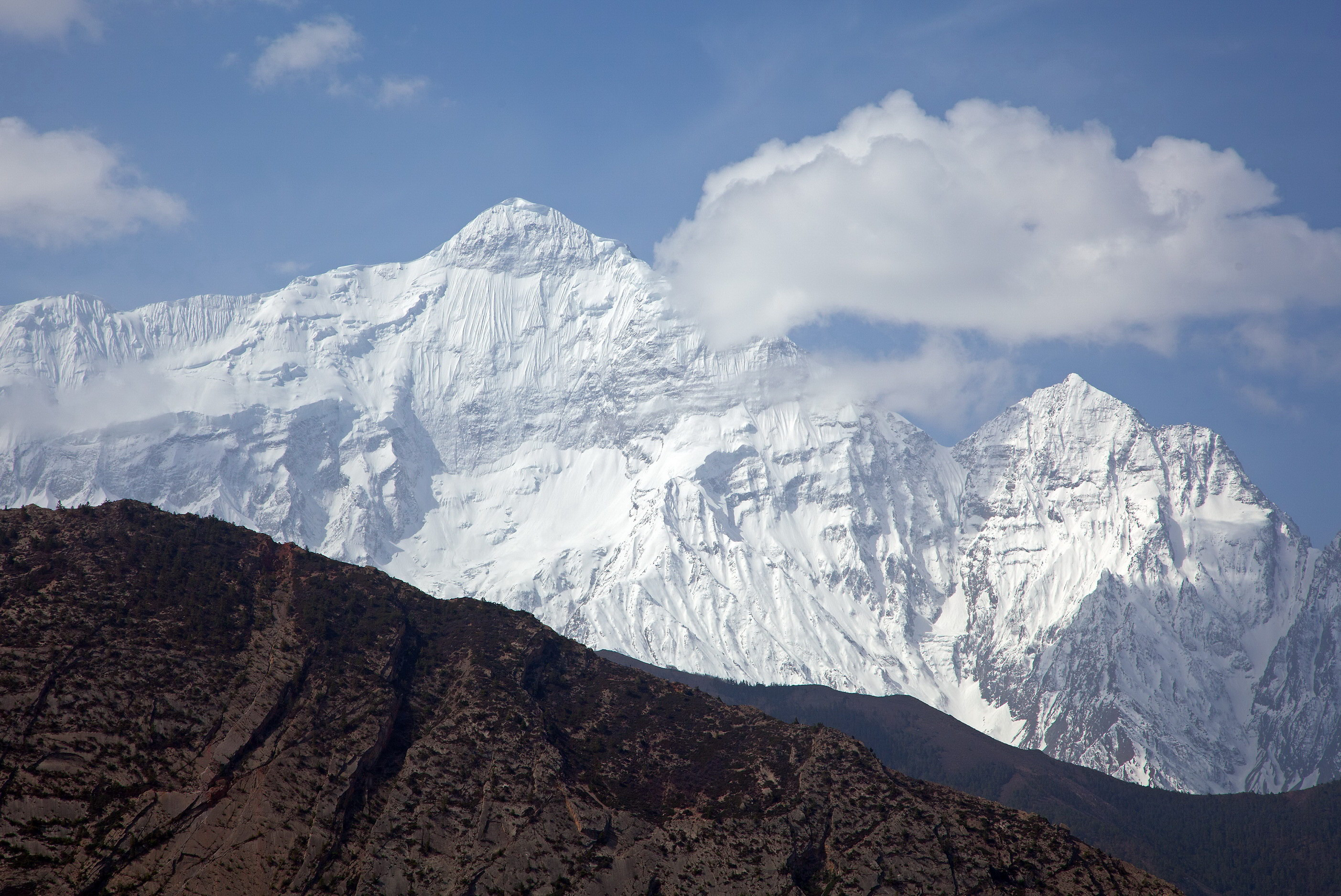 Nilgiri North (7061 m) / Nepal